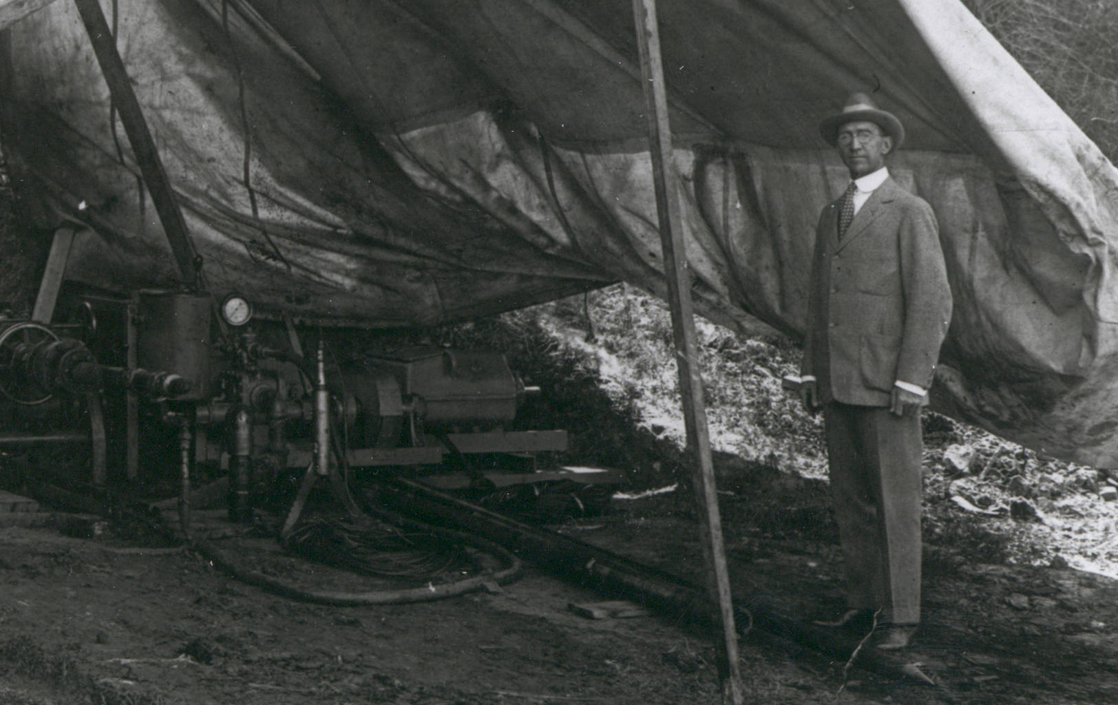 Howard R. Hughes, Sr (1869–1924), standing outdoors by a trench mining drill, which is underneath a tent-like canopy. Part of the Sharp-Hughes Tool Company's Second and Girard Streets plant in Houston, Texas (today the site of University of Houston–Downtown) is seen in the background.